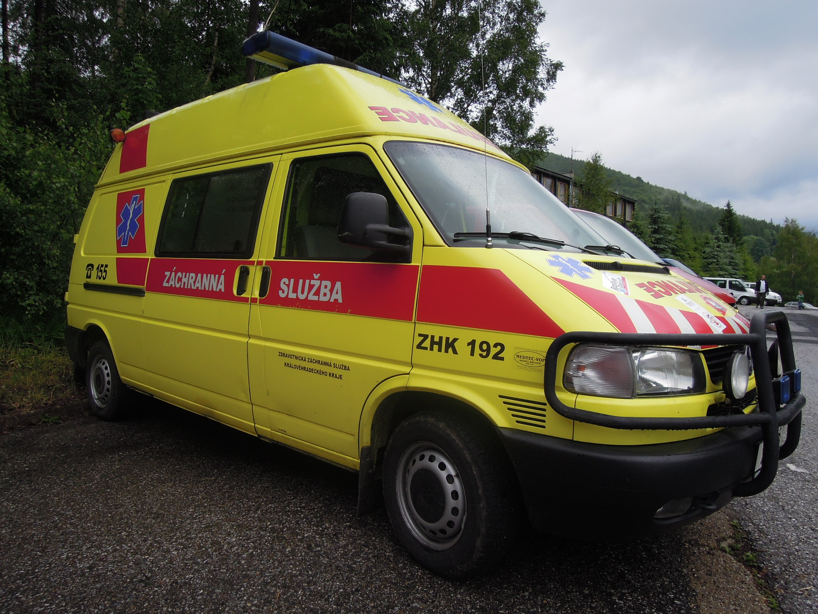 Volkswagen Transporter T4 ambulance of Zdravotnická záchranná služba Královéhradeckého kraje. Photo was taken during the international competition Rallye Rejvíz 2012 in Kouty nad Desnou, Olomouc Region, Czech Republic